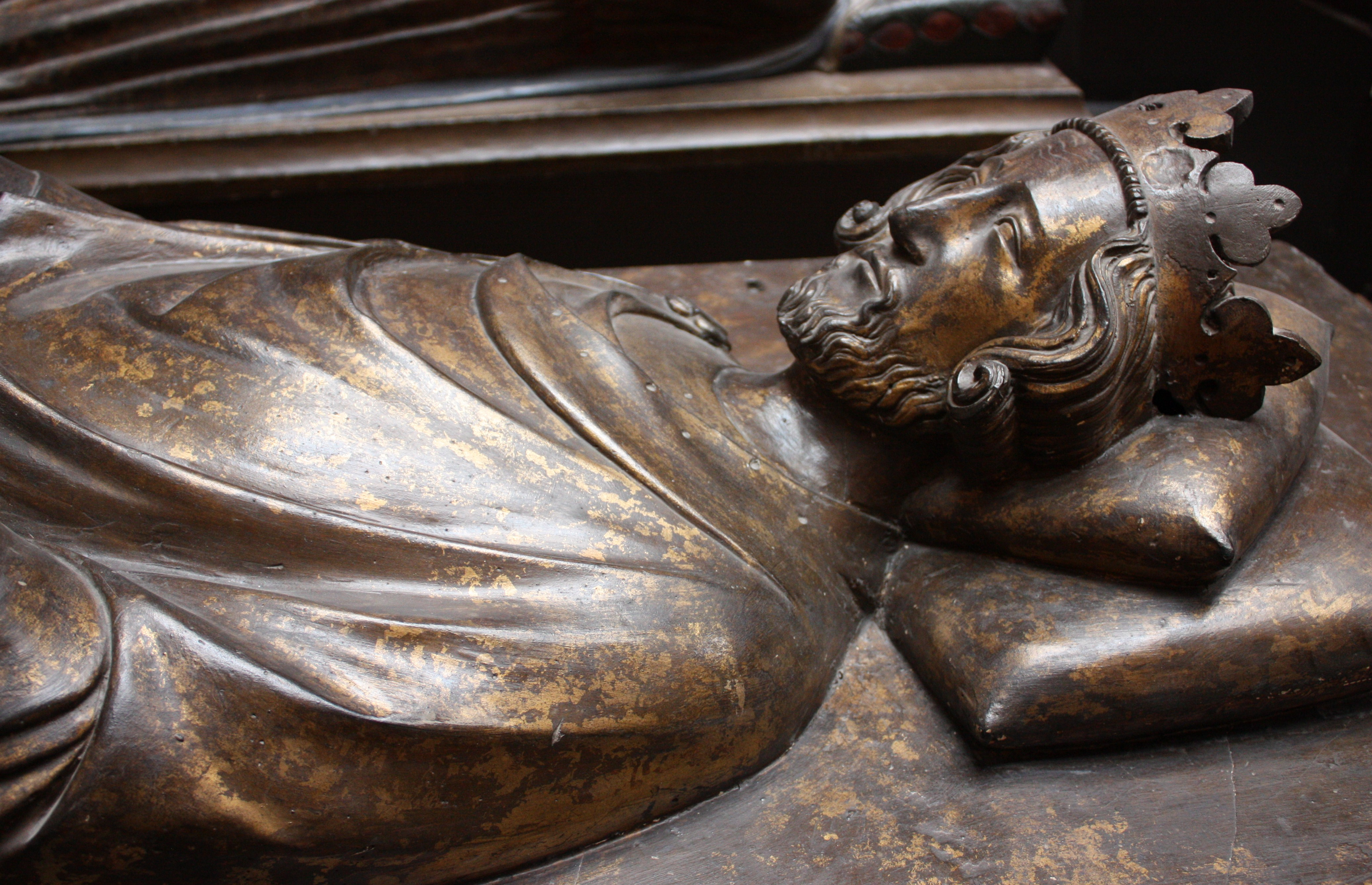 Plaster cast (with restored gilding) Tomb effigy, in gilt bronze, of Henry III of England (b.1206; d.1272) in the Confessor's Chapel, Westminster Abbey; by William Torel, about 1292 English, Westminster The inscription in embossed Lombardic letters around the edge of the tomb slab reads: Ici gist henri jadis rey de engletere seygnur de hirlaunde educ de aquitayne lefiz lirey john jadis rey de engletere akideu face merci amen. (Here lies Henry, formerly King of England, ruler of Ireland and Duke of Aquitaine, the son of King John, formerly King of England, God have Mercy on him, Amen). Wikipedia Loves Art at the Victoria and Albert Museum This photo of item # 1912-1 at the Victoria and Albert Museum was contributed under the team name "va_va_val" as part of the Wikipedia Loves Art project in February 2009. Victoria and Albert Museum The original photograph on Flickr was taken by Val_McG—please add a comment to the original Flickr page whenever a use has been made on Wikipedia or another project. Project galleries on Flickr: this institution, this team